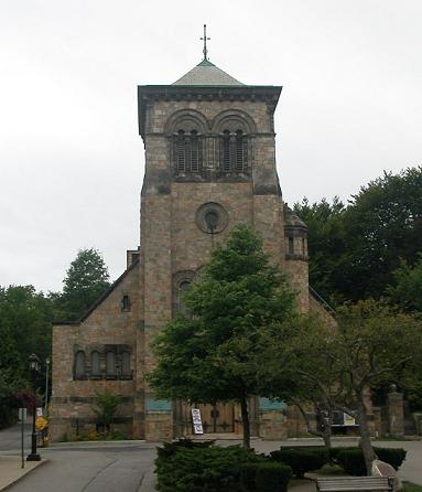 Town Sqaure in Plymouth, Massachusetts